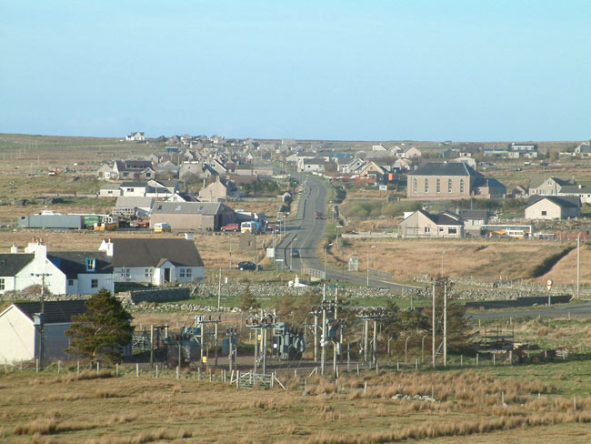 A photo of Lower Barvas